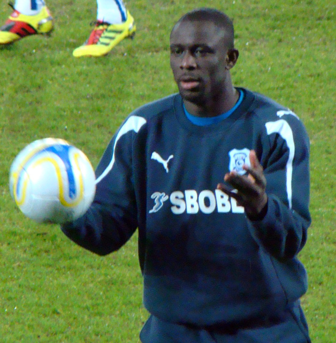 Seyi Olofinjana warming up. 04/01/11 Cardiff V Leeds, Championship, Cardiff City Stadium, Cardiff, Wales.